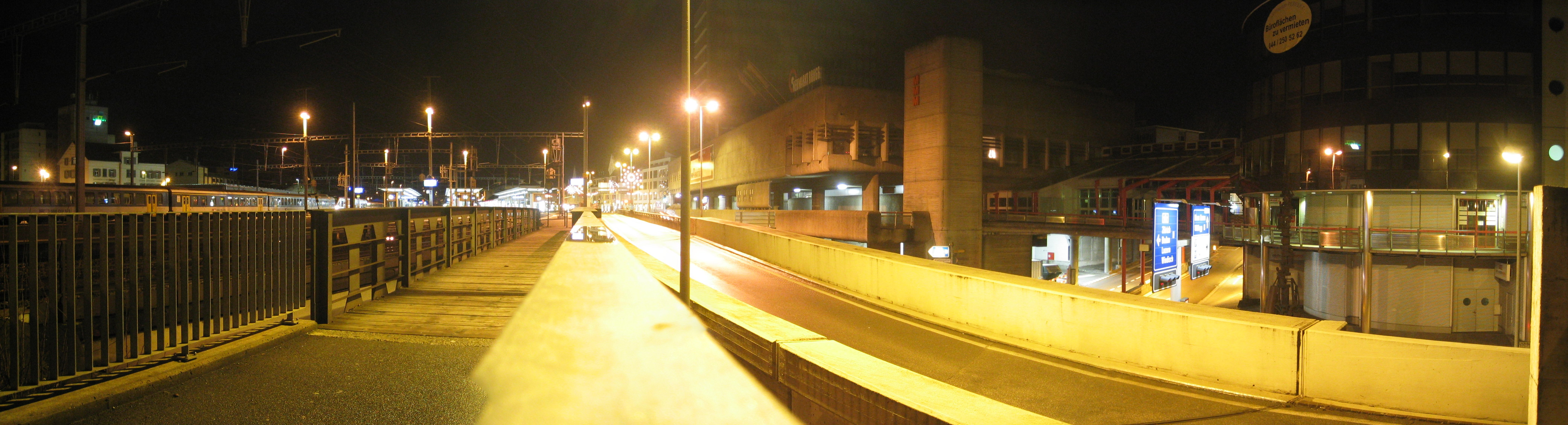 A panorama